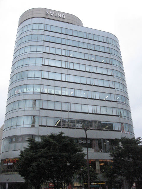 SWING Building in the JR Musashisakai Station north gate.